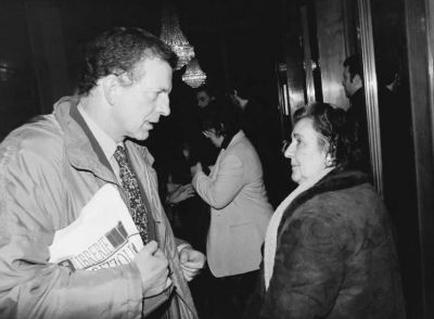 The italian writer Aldo Busi in Rome with italian poetry Alda Merini